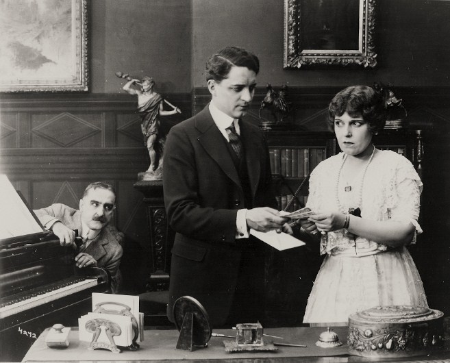 L. to R. : John Cossar, Bryant Washburn, and Anne Leigh in The Alster Case (1915) - cropped screenshot